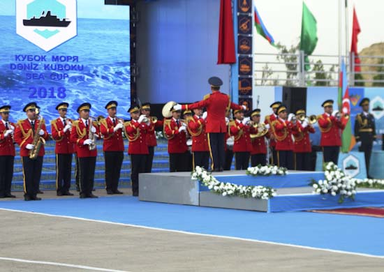 Sea Cup 2018 international contest kicks off in Azerbaijan